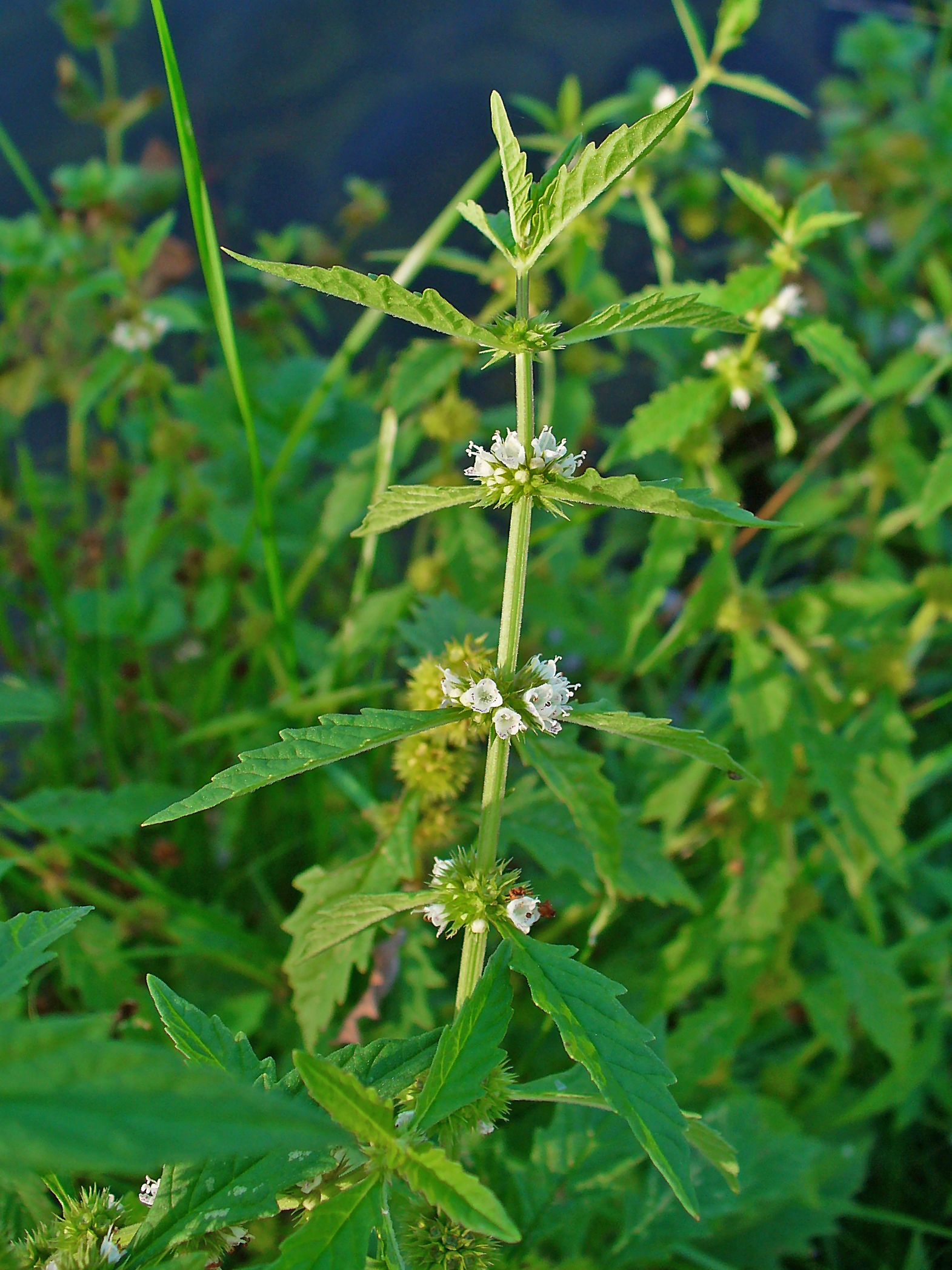 Lycopus europaeus, Lamiaceae, Gipsywort, Bugleweed, European Bugleweed, Water Horehound, inflorescences; Karlsruhe, Germany. The fresh, aerial parts of blooming plants are used in homeopathy as remedy: Lycopus europaeus (Lycps-eu.)